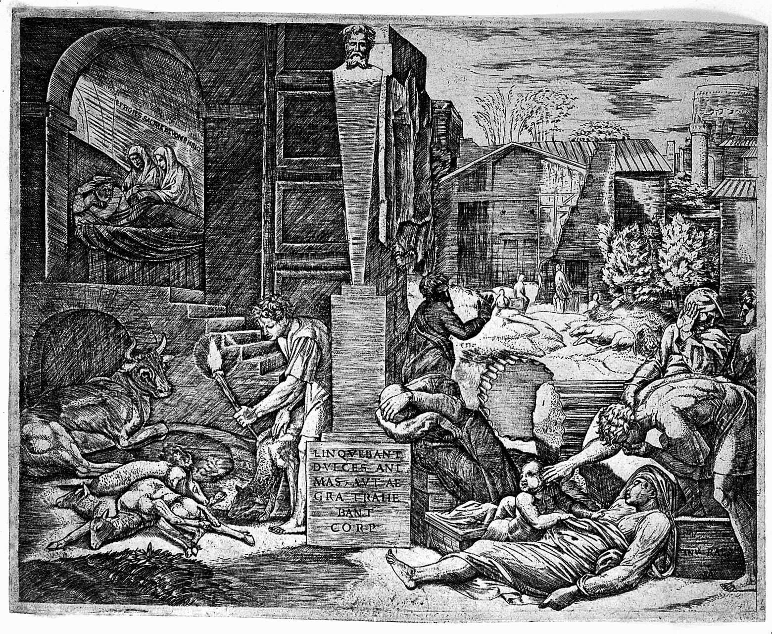 Plague in Phrygia. Engraving by M. Raimondi after Raphael after Virgil. Iconographic Collections Keywords: Plague; Publius Vergilius Maro; Marcantonio Raimondi; Raphael